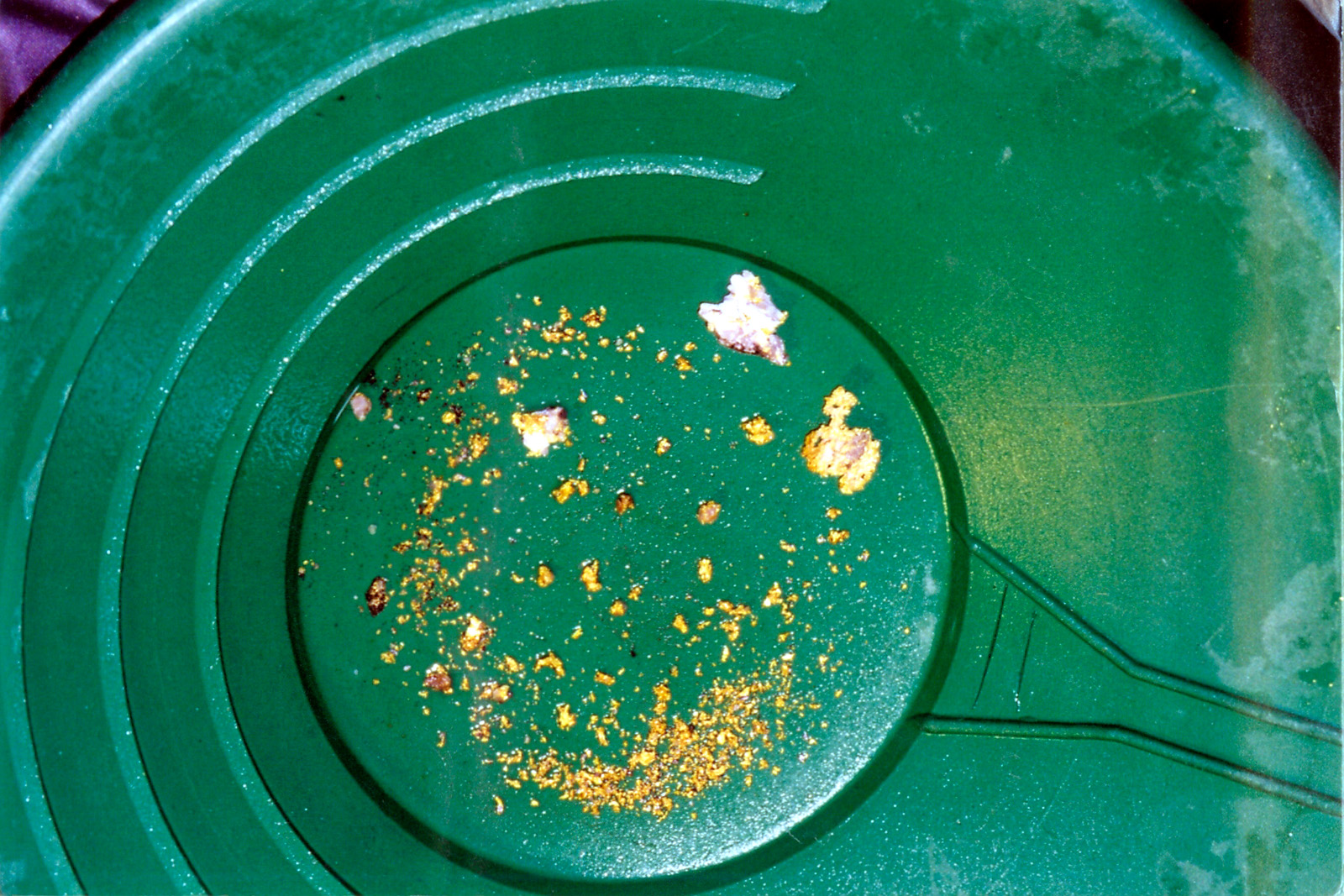 A friend and I had been poking around for a while before hitting a bit of paydirt. Clinkers and clunkers in a 14 inch gold pan from a day's work at his claim. My fourth auriferous post.